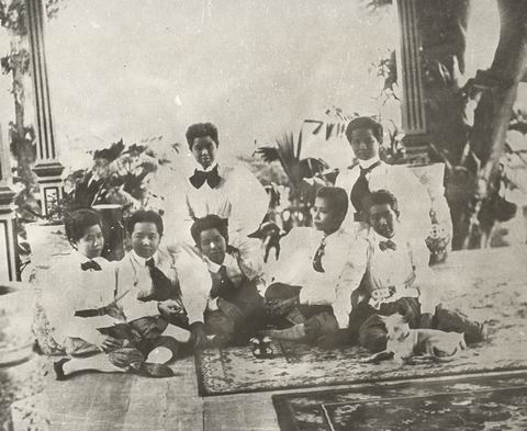 Thai Royal Consorts of the Inner Court of the Grand Palace, Bangkok(from left) Princess Khae Khai Duang, Queen Saovabha Phongsri, Princess Phuang Soi Sa-ang, Princess Pradittha Sari, Queen Savang Vadhana, Queen Sukhumala Marasri and Princess Naphaphon Prapha